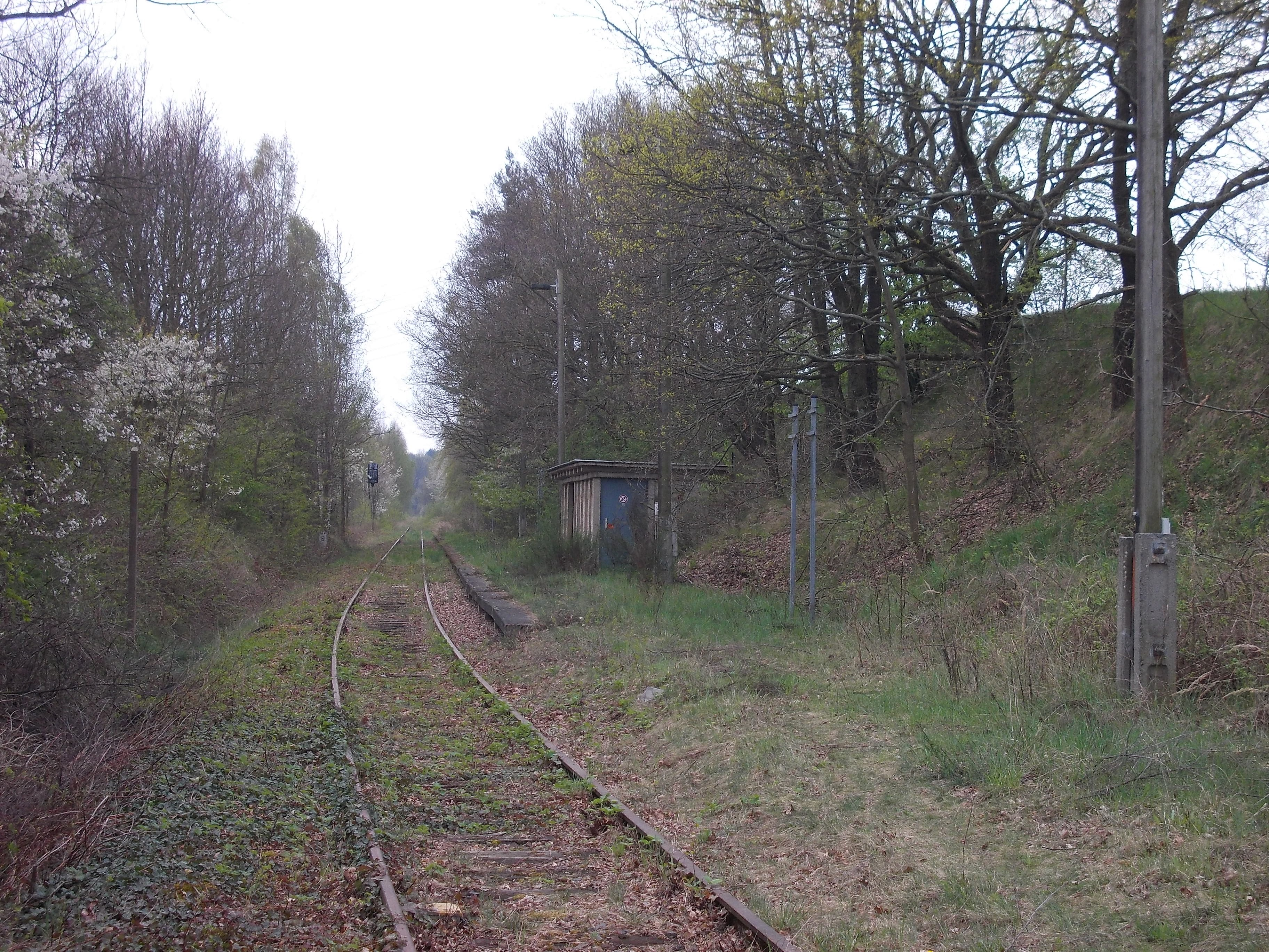 Former Sermuth train station (Colditz, Leipzig district, Saxony)